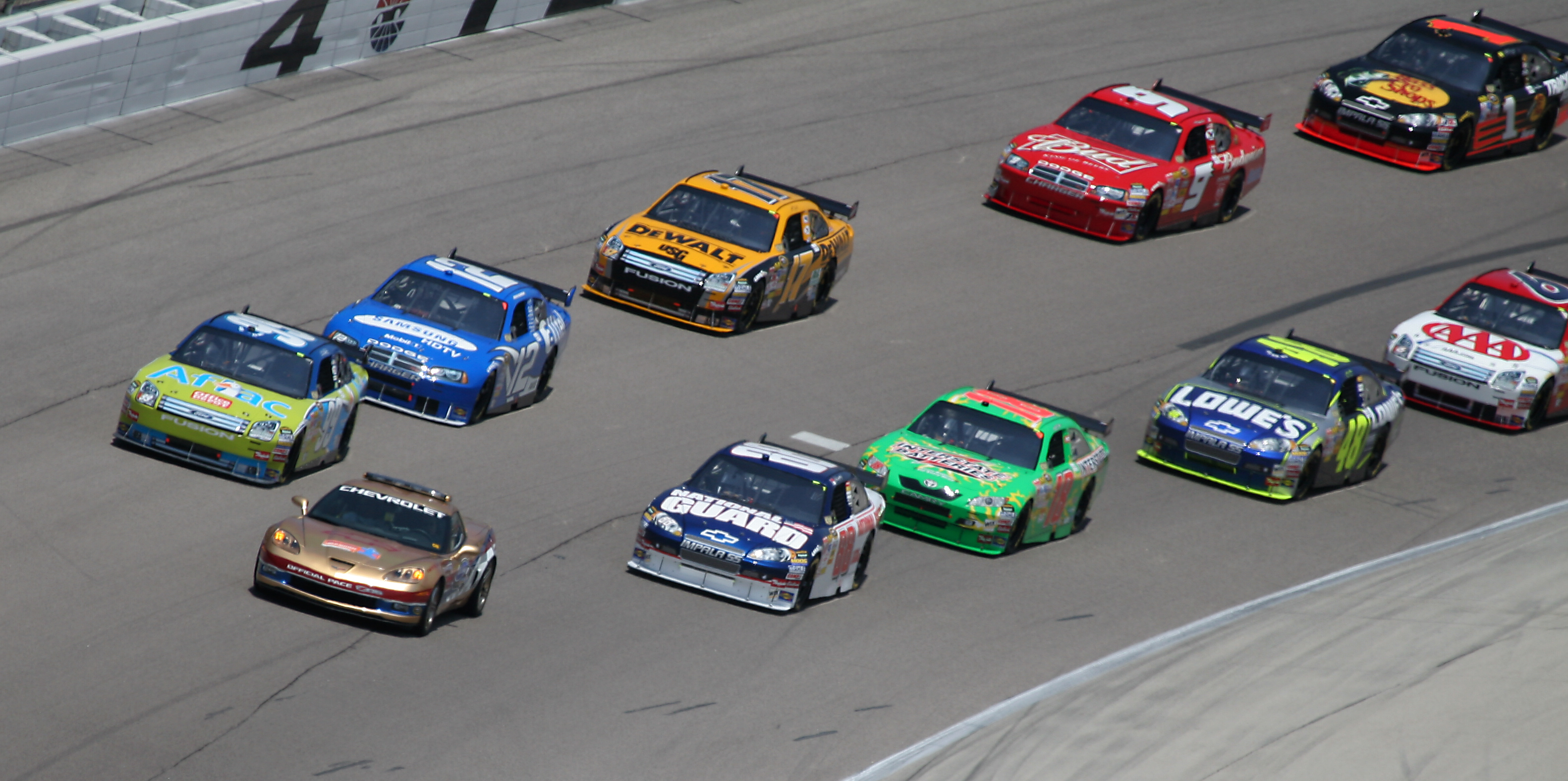 About to go green at the Samsung 500.